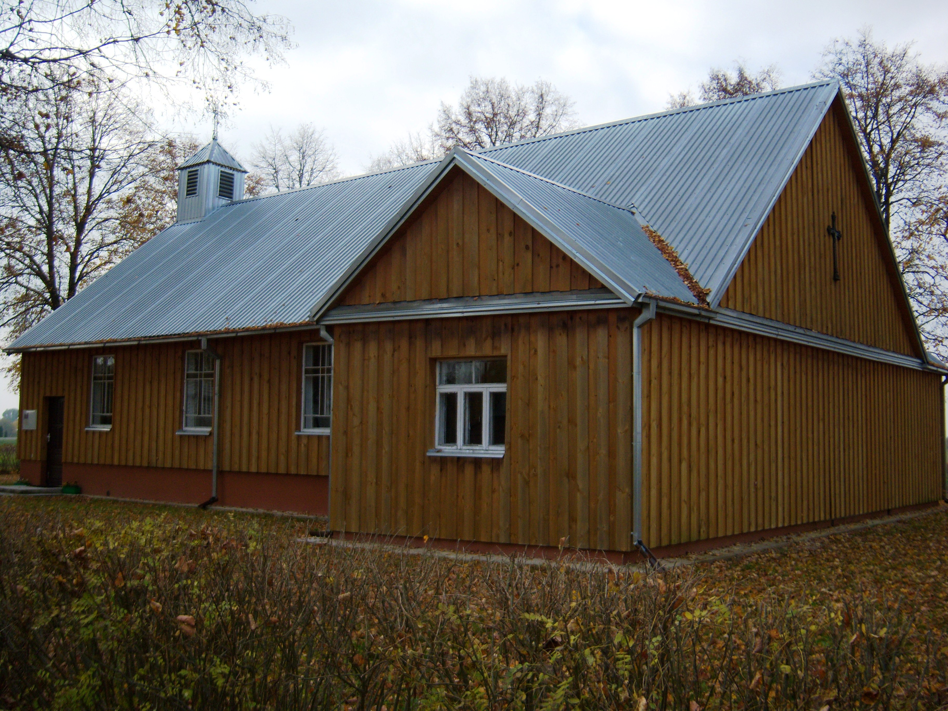 Roman Catholic Church, Burbiškis, Anykščiai District, Lithuania